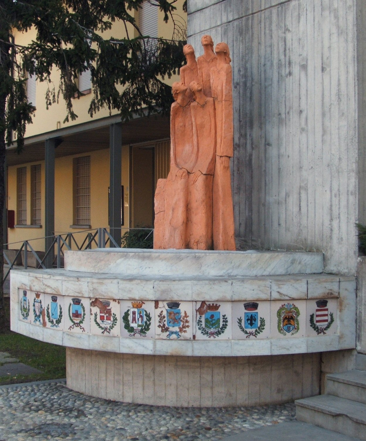 Azzano San Paolo (Bergamo), Lombardy, Italy - monument to Azzano d'Italia